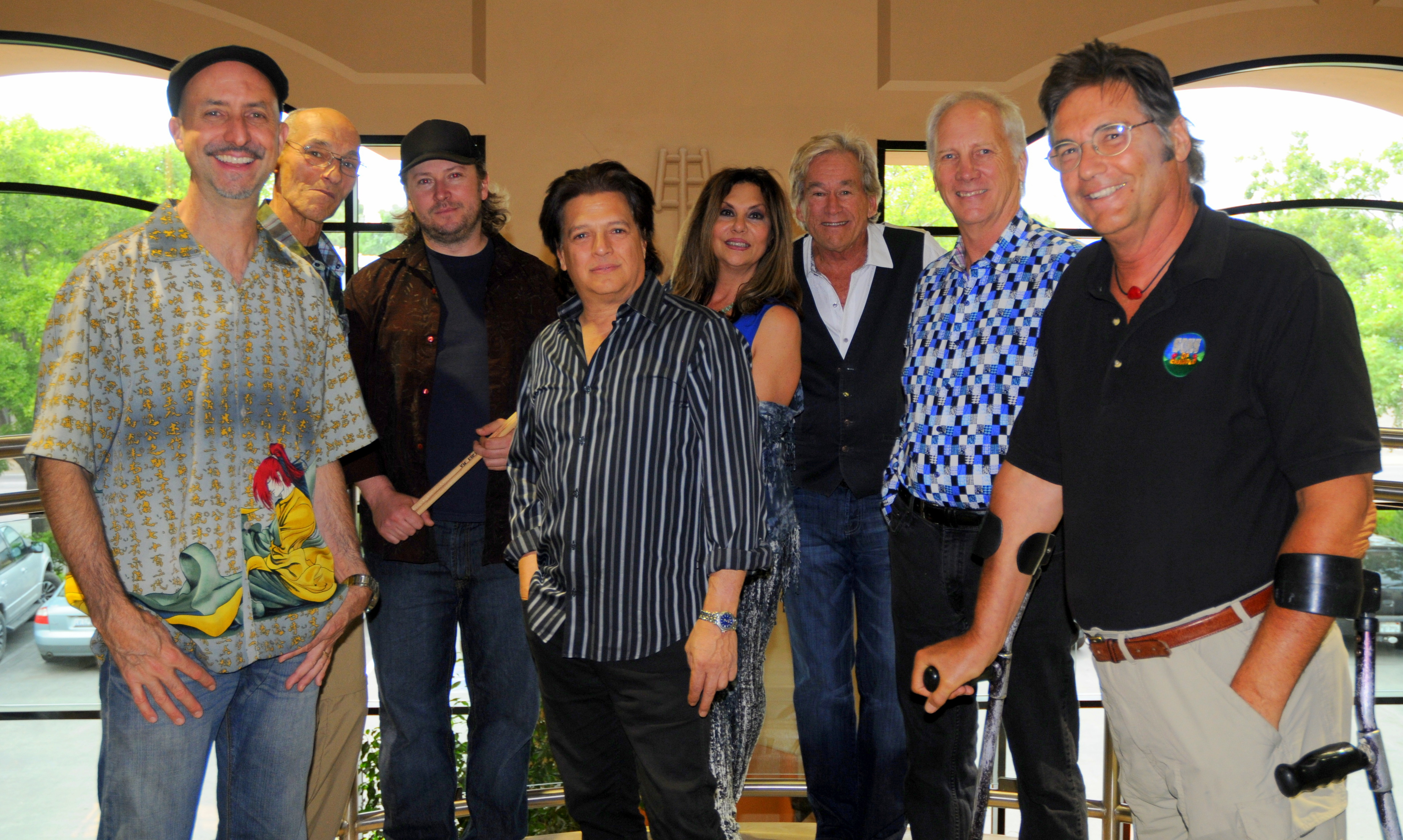 promo pic